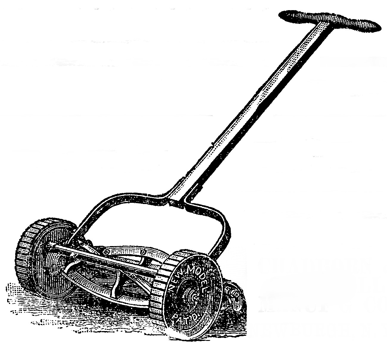 A reel lawn mower, adapted from an illustration used in an advertisement in a 1888 issue of Garden and Forest. The ad was placed by Chadborn & Coldwell Manufacturing in Newburgh, New York.